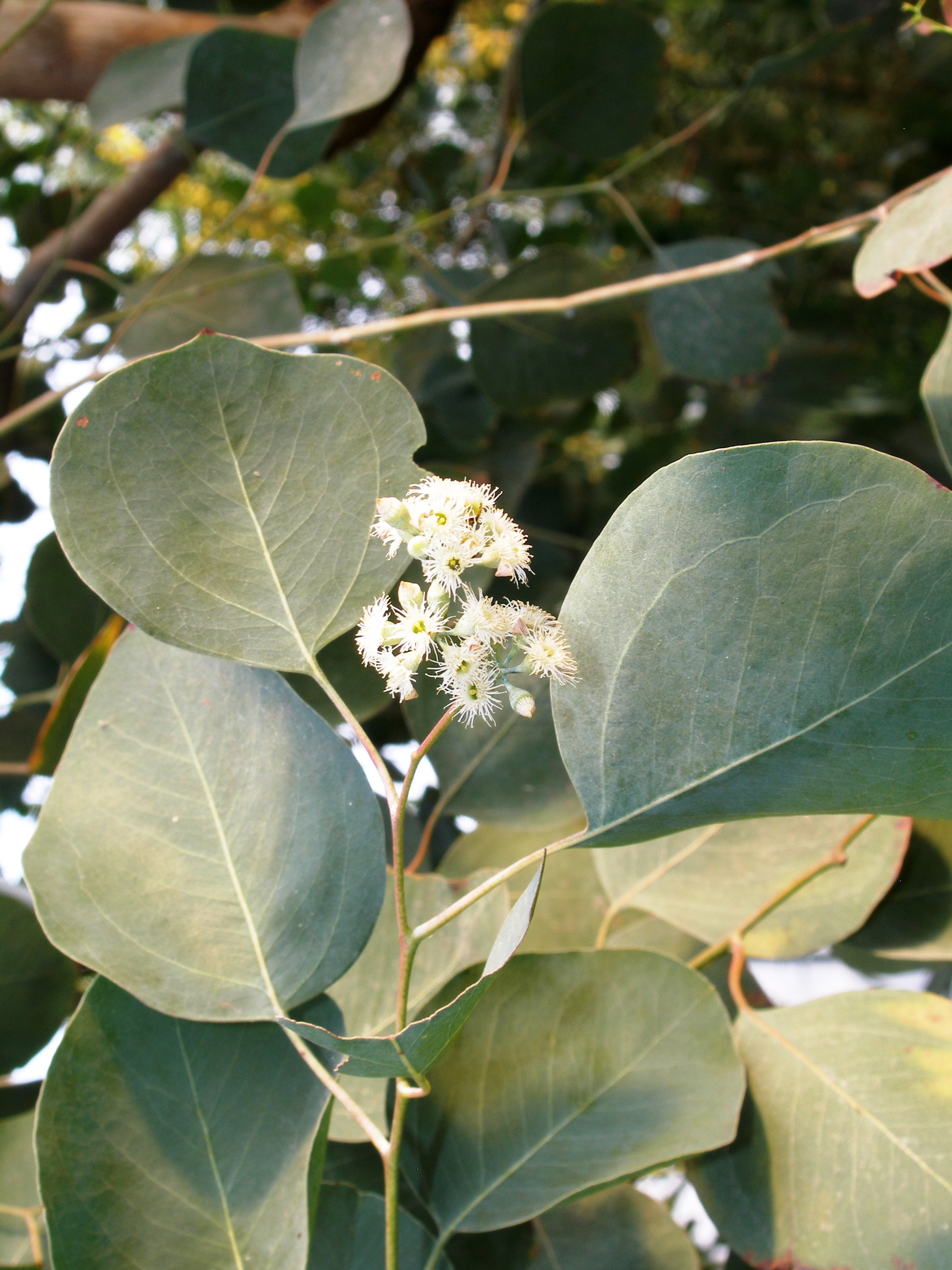 Specimen in cultivation at the Wilhelma Zoologisch-Botanische Garten, Stuttgart, Germany.